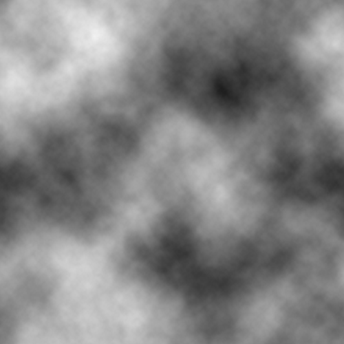 Two-dimensional Perlin noise function. The highest values are represented as white dots, and the lowest as the black ones (of course, various shades of gray represent all other values respectively).